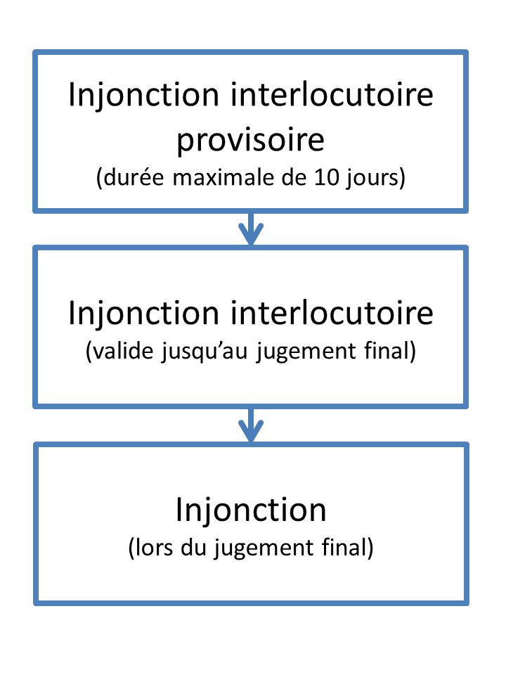 Schema showing the different kinds of injunctions in Quebec law.